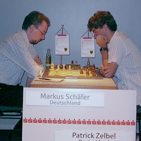 Markus Schäfer - Patrick Zelbel, Dortmunder Schachtage 2010, Photographer Gerhard Hund.